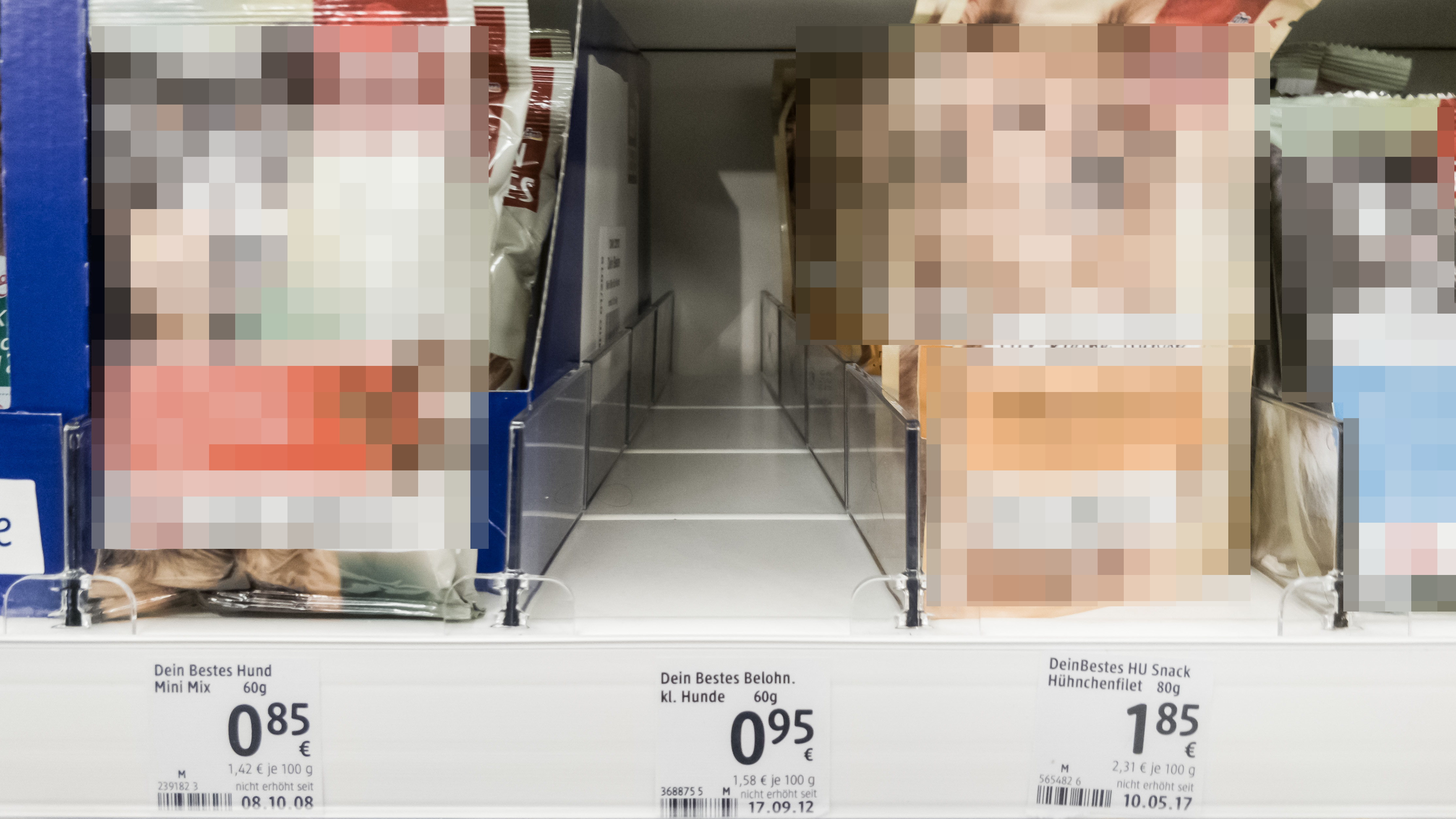 Stockout of dog food. Product pixelized for copyright reasons